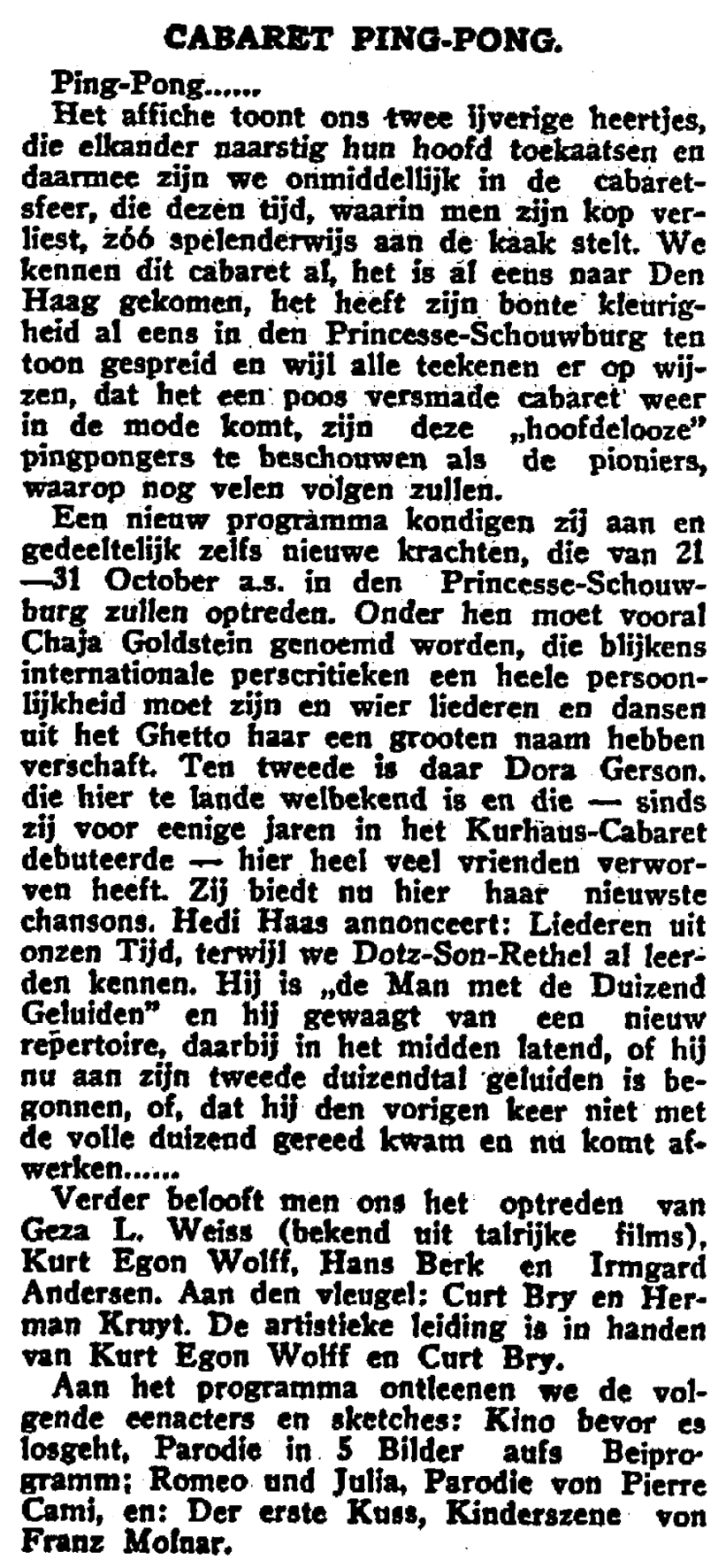 Advertisement for Ping-Pong Cabaret 1933